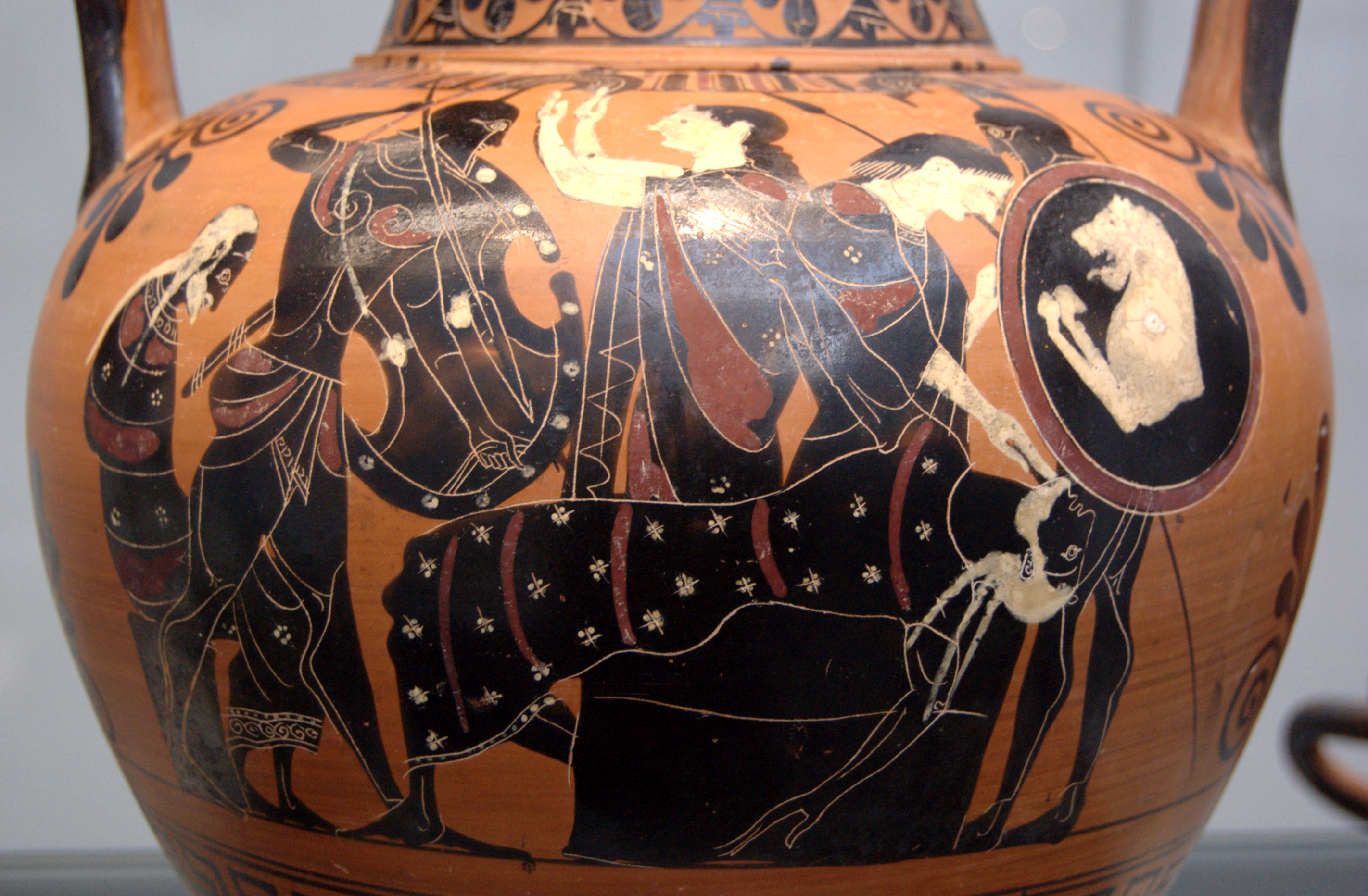 Ilioupersis: Neoptolemus kills Priam on Zeus altar next to his wife, Hecuba. Side A of an Attic black-figure amphora by the Group of Würzburg 179 (name vase), ca. 510 BC. Martin-von-Wagner-Museum, L 179 (work on display in the Staatliche Antikensammlungen, room 4, as of Februar 2007). Beazley, ABV, 290, 1.